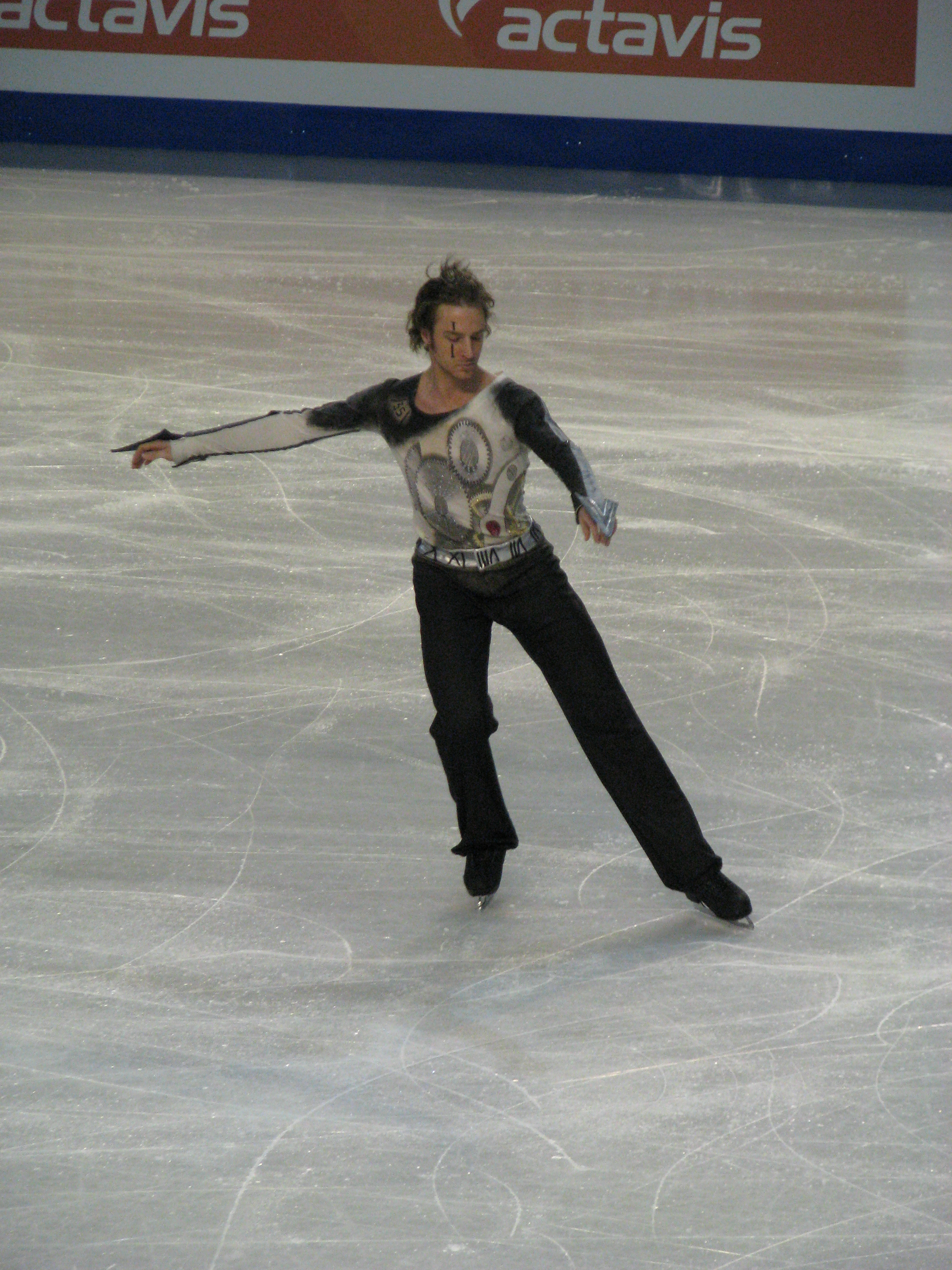 Fabian Bourzat in 2010 European Figure Skating Championships